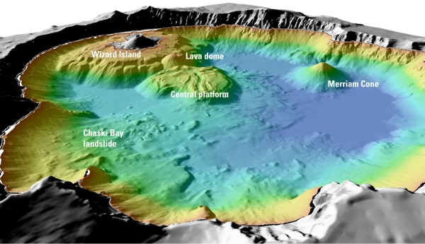 "Details of features beneath the surface of Crater Lake constructed using data from the 2000 bathymetry survey. Colors range from orange to blue with increasing water depth."